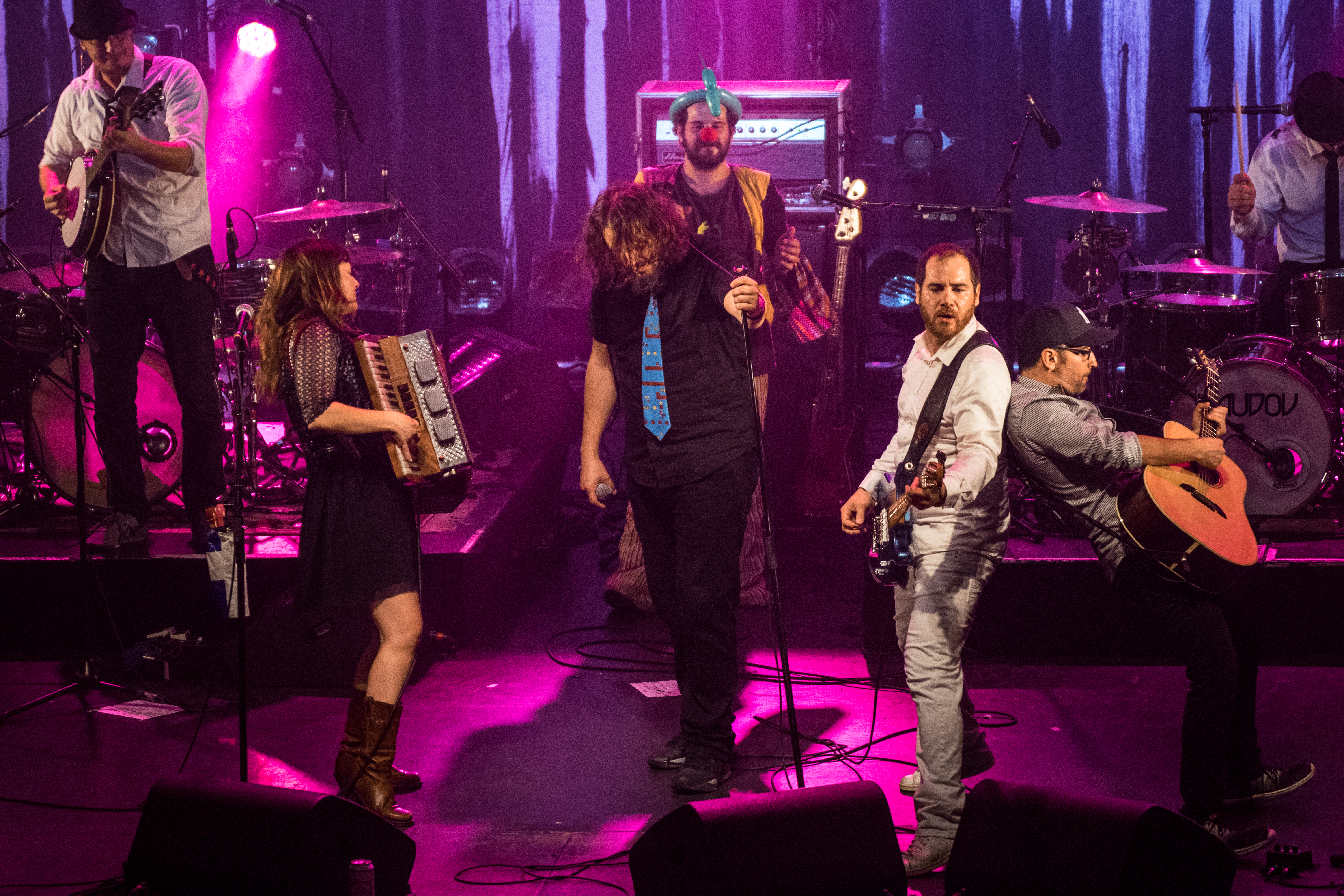 Les Cowboys Fringants in concert at the Métropolis, Montreal, Quebec, Canada.